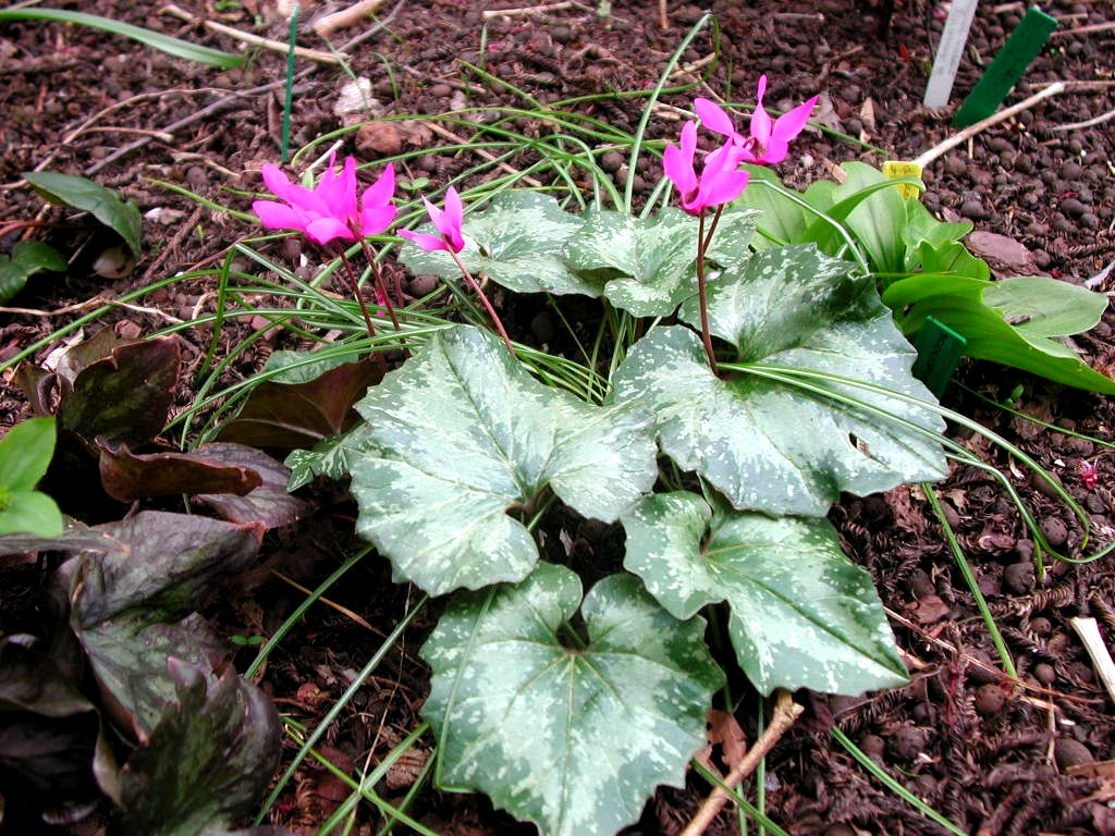 Cyclamen repandum 'Silver form'